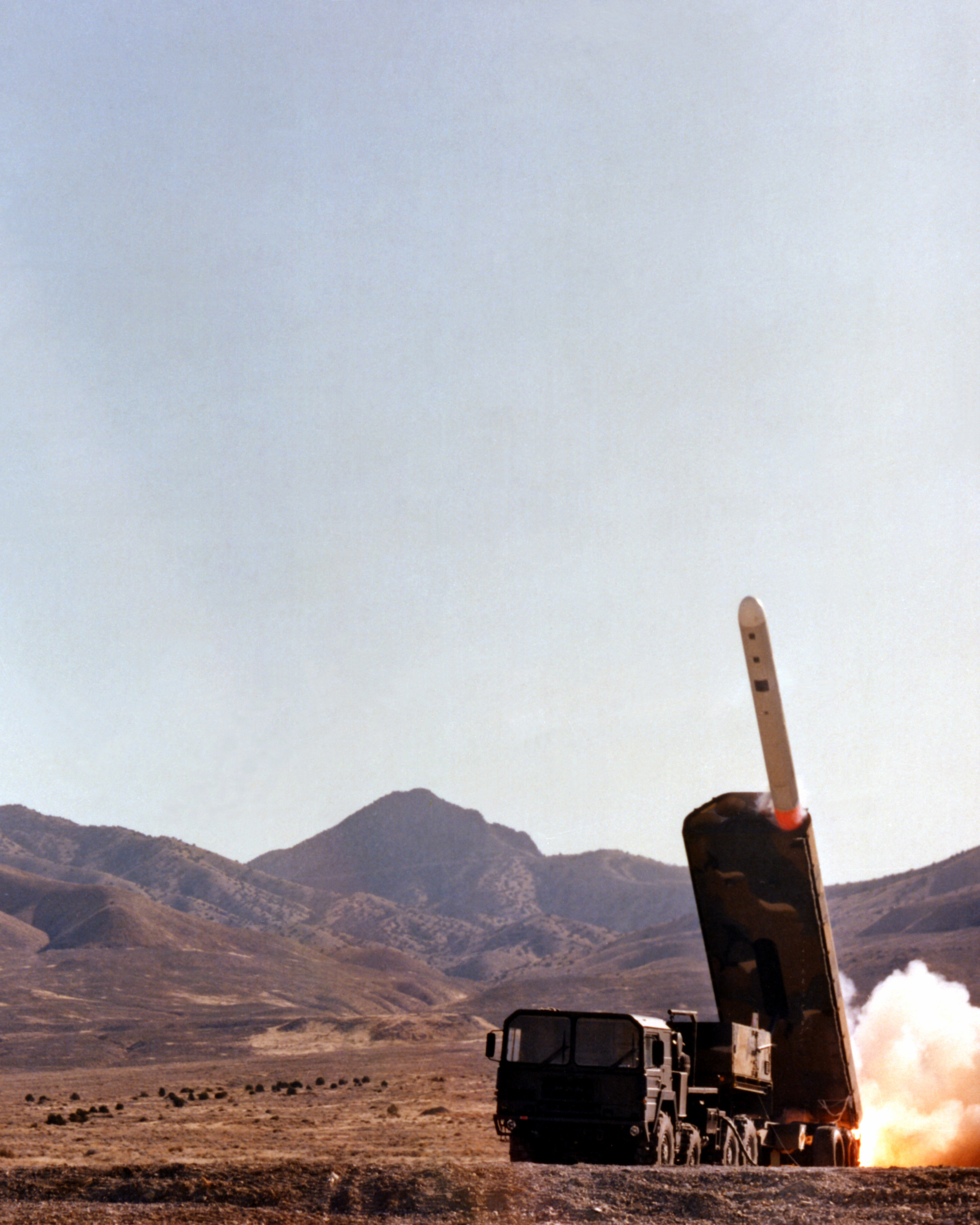 A launching BGM-109G Gryphon missile